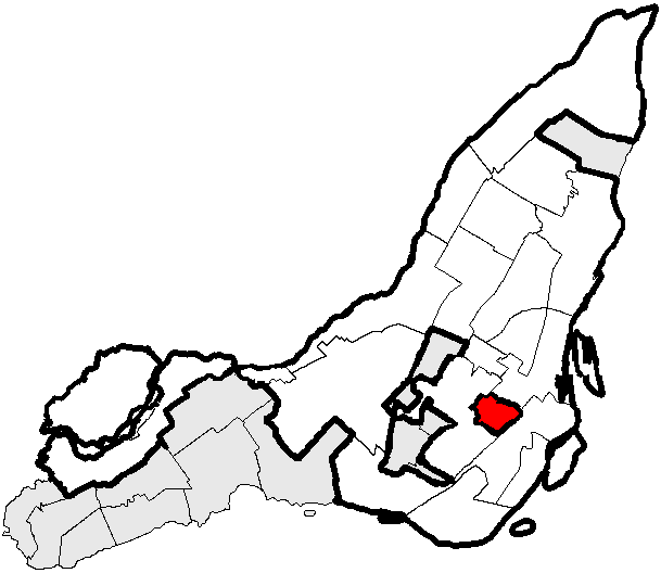 Location of Westmount, Quebec on the Island of Montreal.